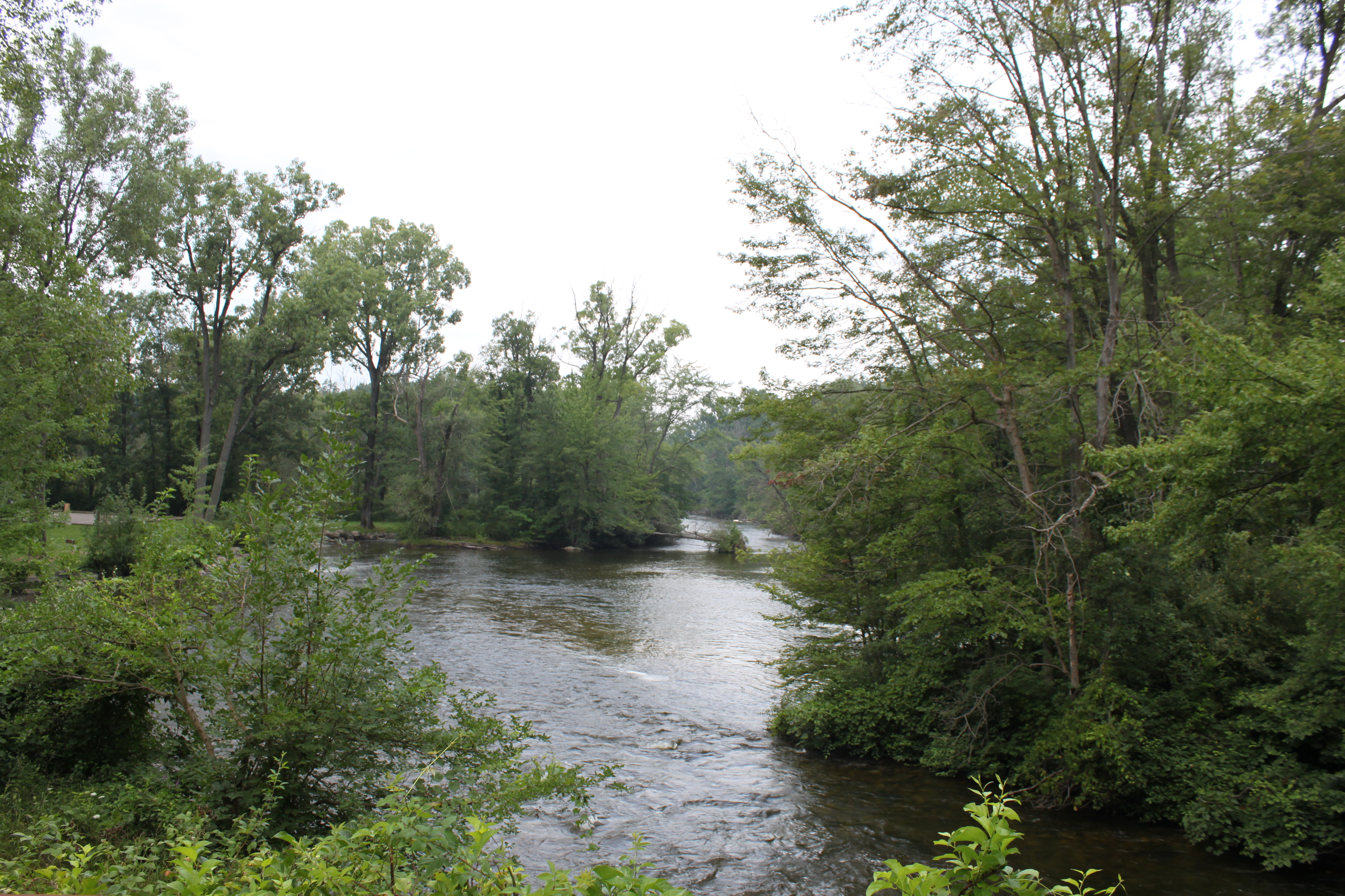 Hudson Mills Metropark, Michigan, Huron River from Rapids View area